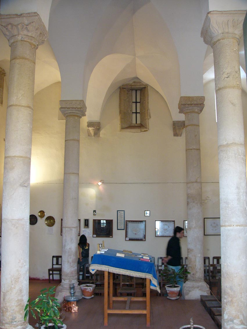 Mediaeval synagogue of Tomar, Portugal